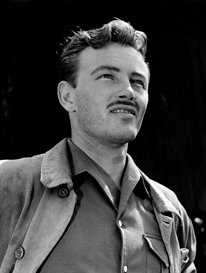 Half-length portrait of Jacques Sernas during a scene from the movie Foreign Earth. Italy, 1954